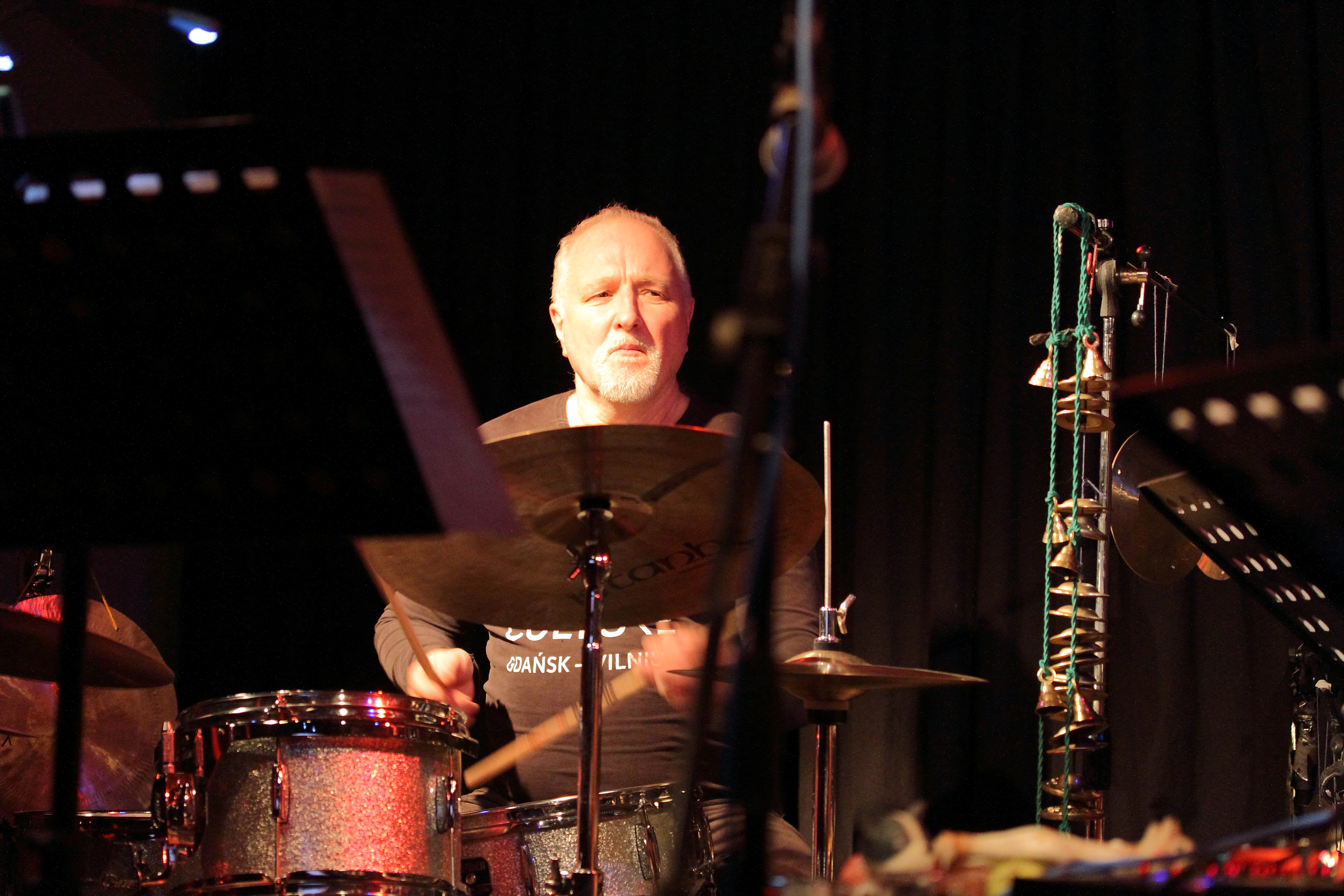 Band leader Mars Williams and his project are interpreting traditional Christmas songs and tunes of Albert Ayler. Here it´s a concert at Club W71, Weikersheim. Band members are Mars Williams (sax), Jaimie Branch (tr), Knox Chandler (g), Klaus Kugel (dr) & Mark Tokar (db).